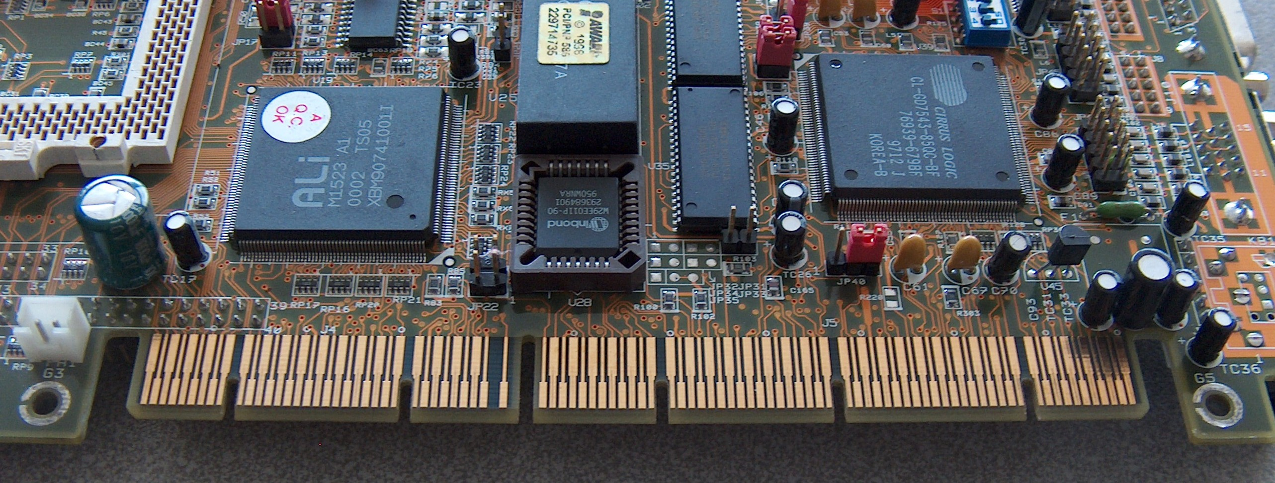 PISA bus connector male, part of mainboard DTV07C. This connector has the same shape as EISA, but the signals are different. Combines ISA bus and PCI bus. Was used for connecting adapter for either ISA and PCI bus.